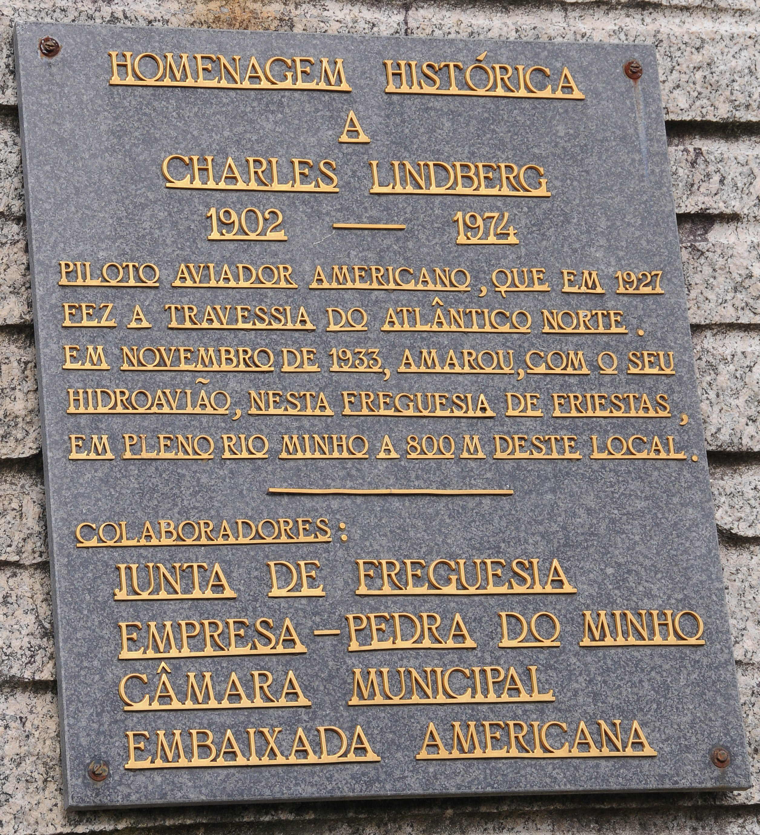 Plaque in Charles Lindbergh monument in Friestas, Valença, Portugal.